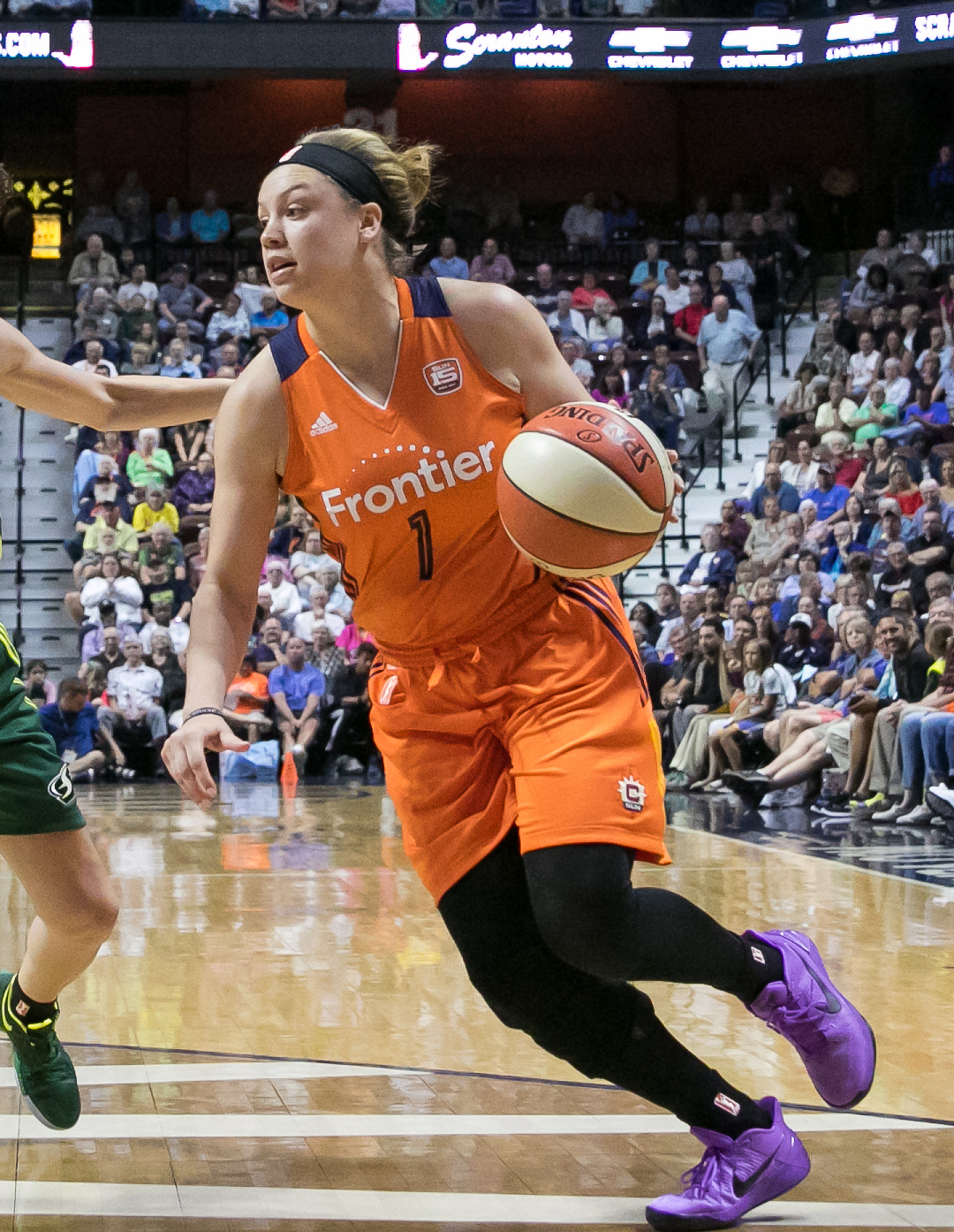 Rachel Banham playing for the Connecticut Sun in 2017